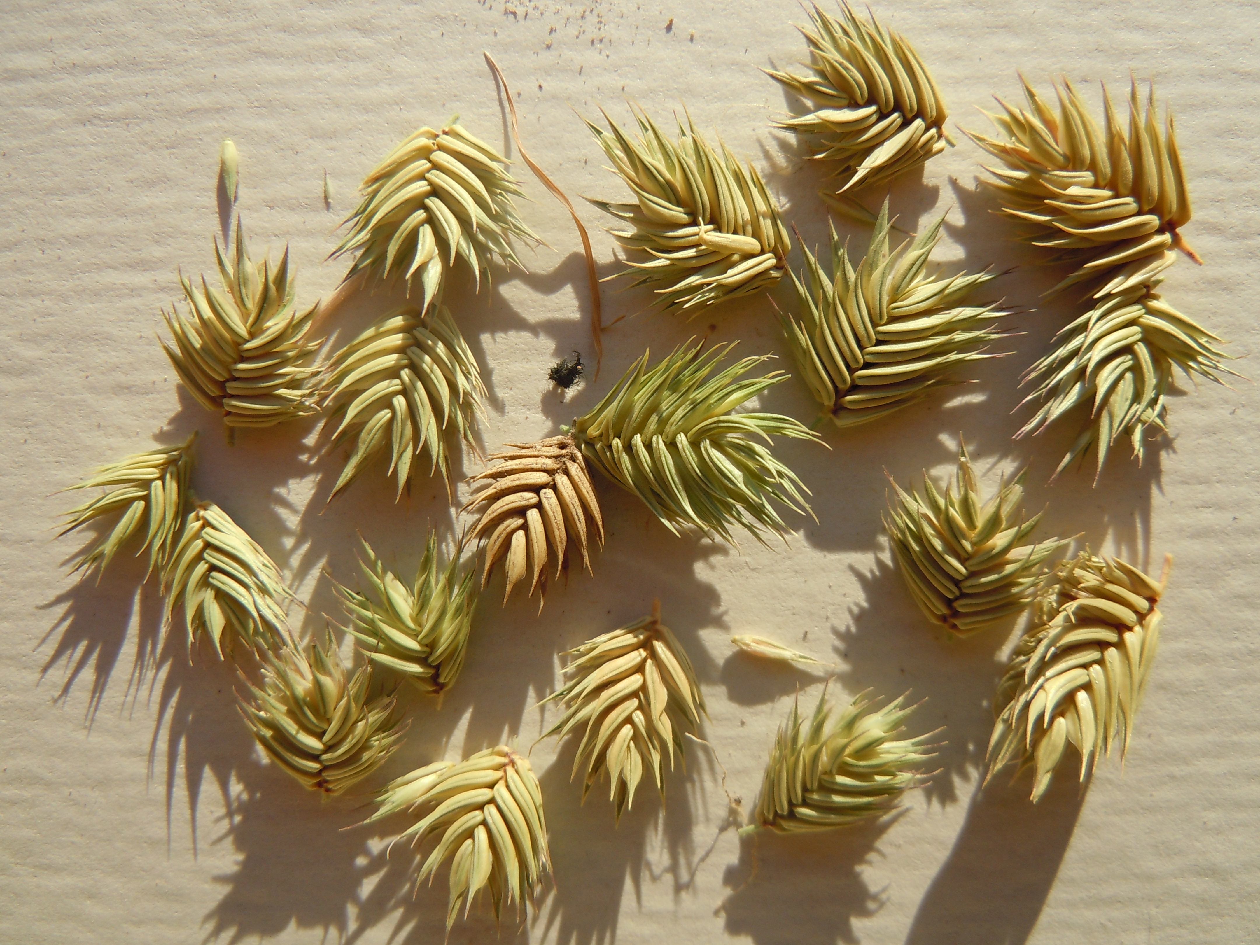 The unit of dispersal (the diaspore) in Eremopyrum is the entire head or bilateral spike (i.e., disarticulation is below the glumes).